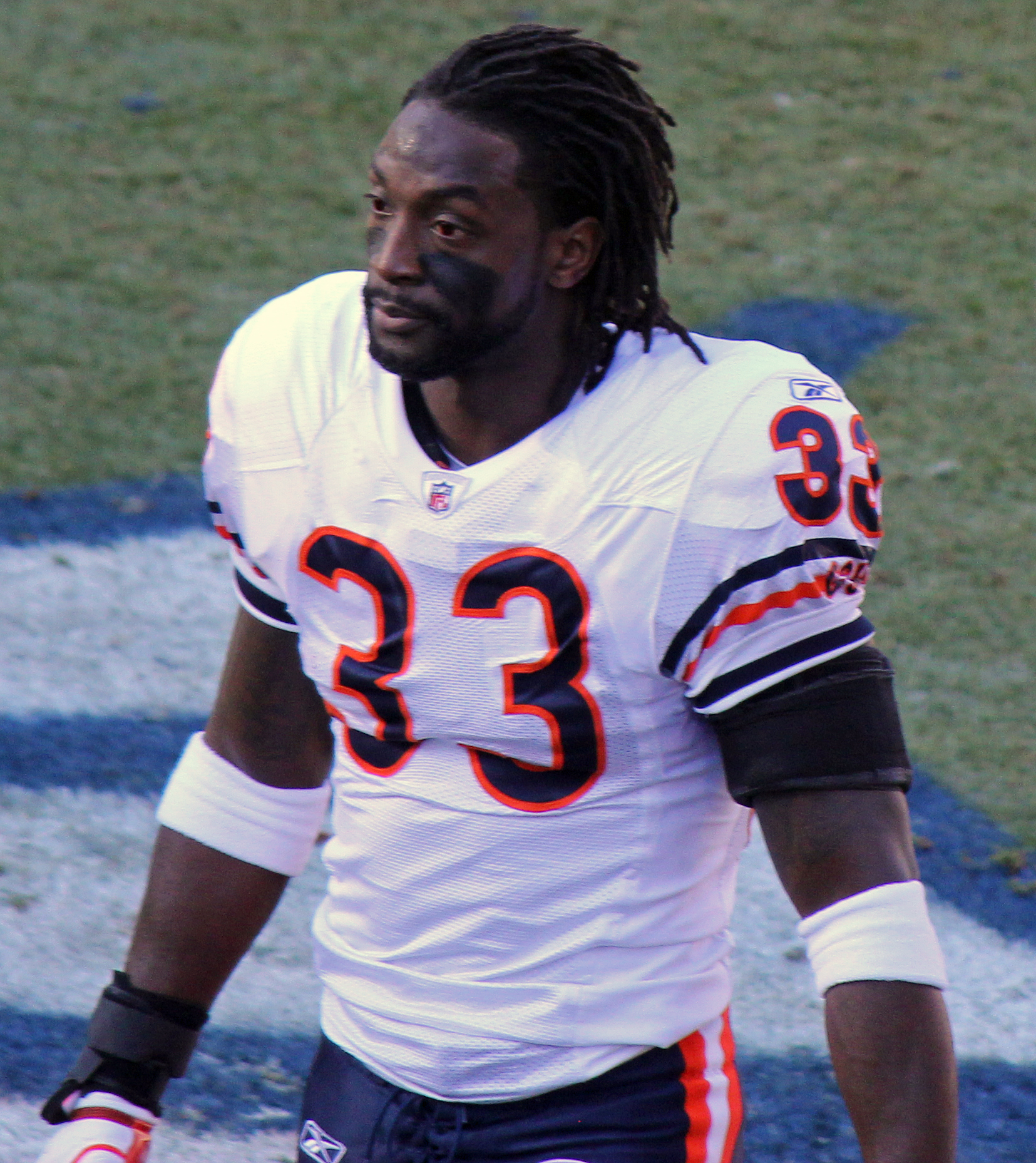 Chicago Bears cornerback, Charles Tillman, playing against the Denver Broncos on December 11, 2011.